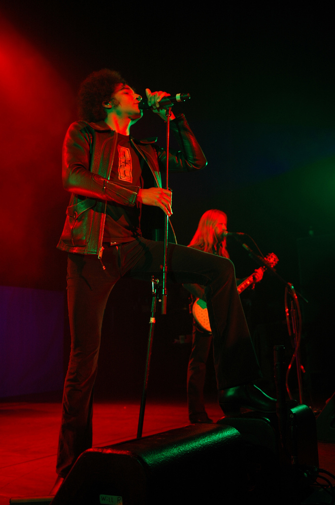 Alice In Chains